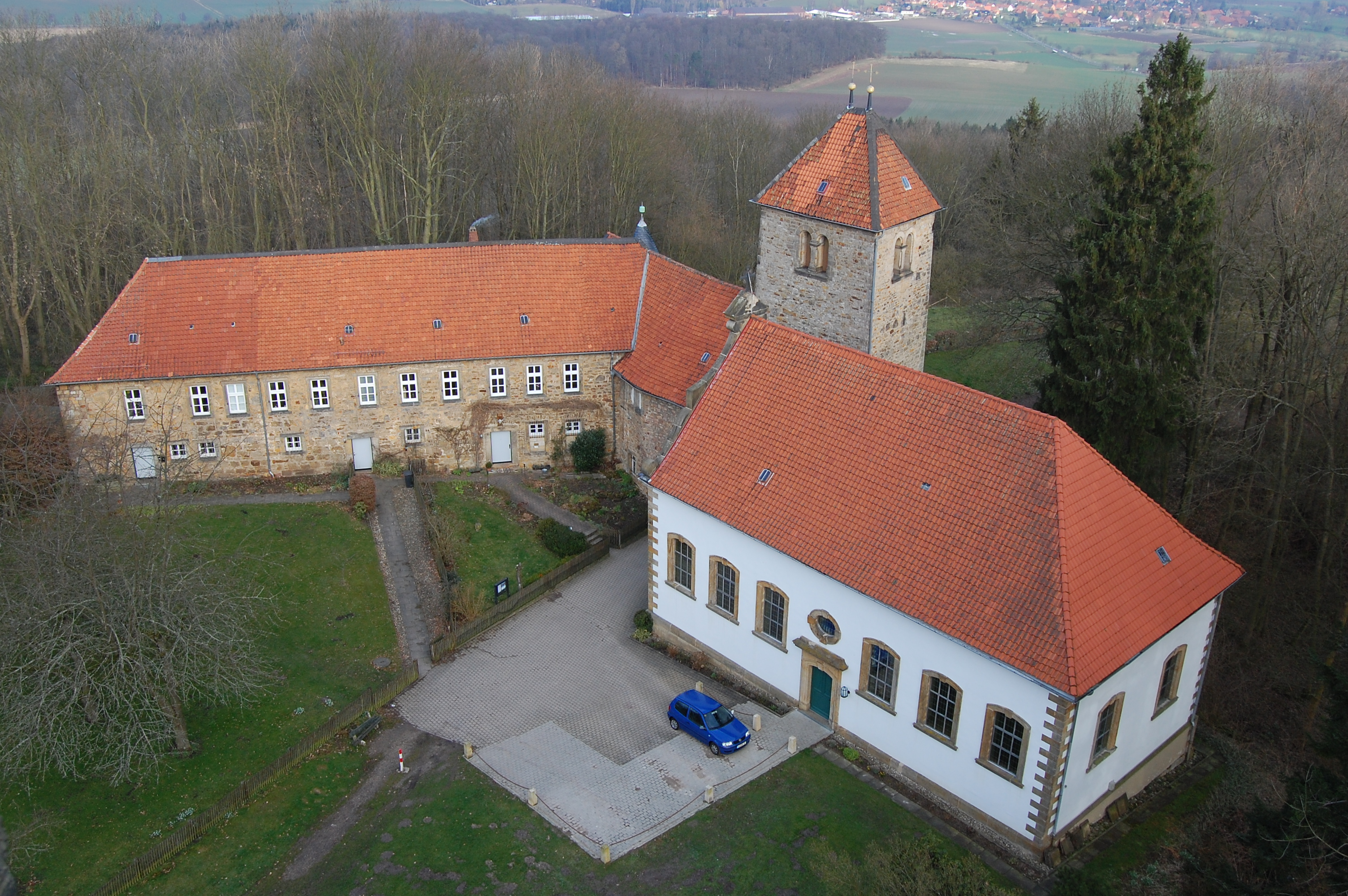 Burg Wohlenburg (a medieval castle next to the village of Sillium, in the district of Hildesheim in Germany)